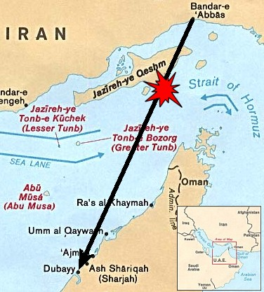 Strait of Hormuz depicting intended path of Iran Air 655 and approximate location of downing. (English)